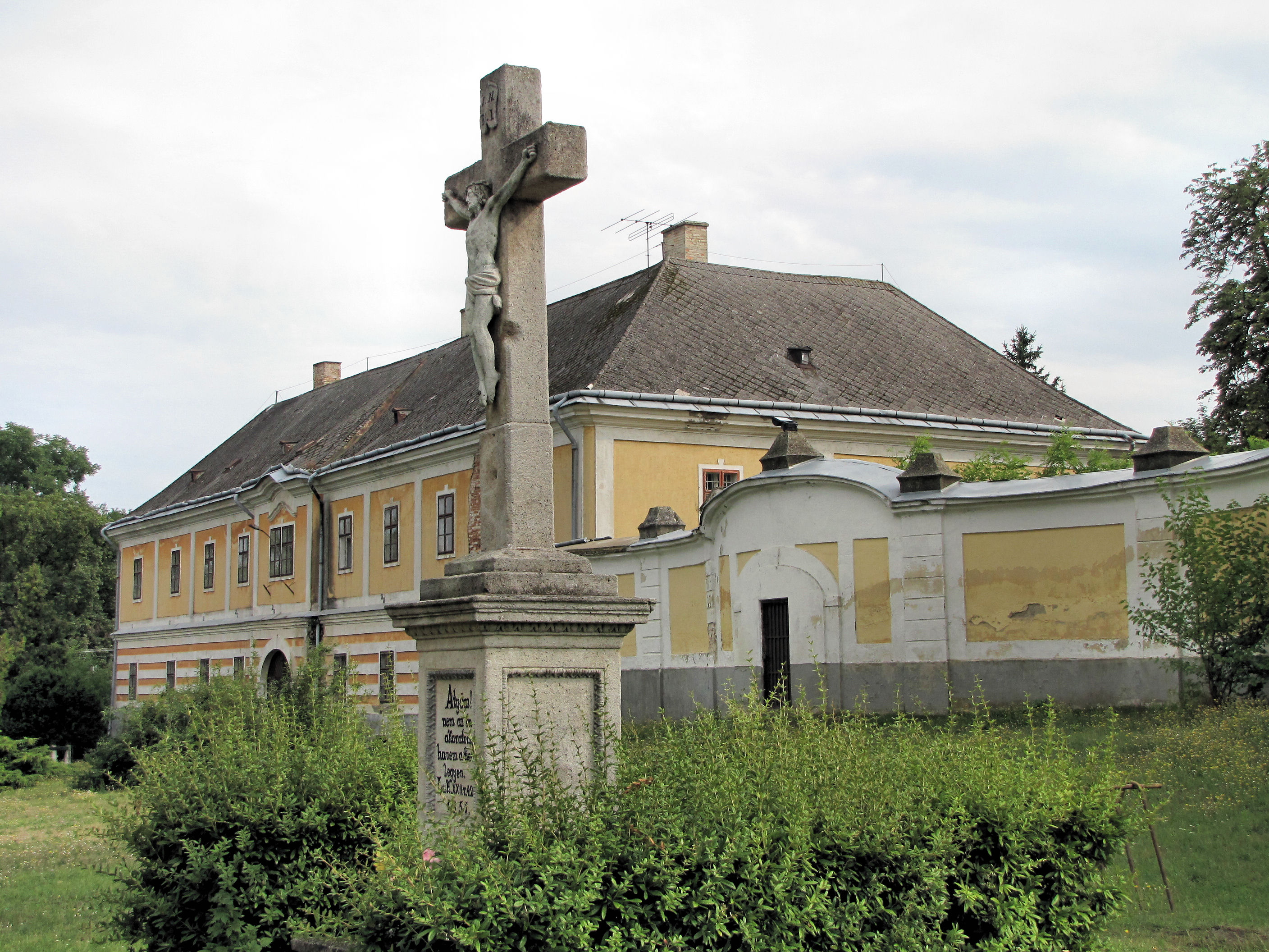 Előszállás, the former Cistercian monastery (b. 1765) with a cross.